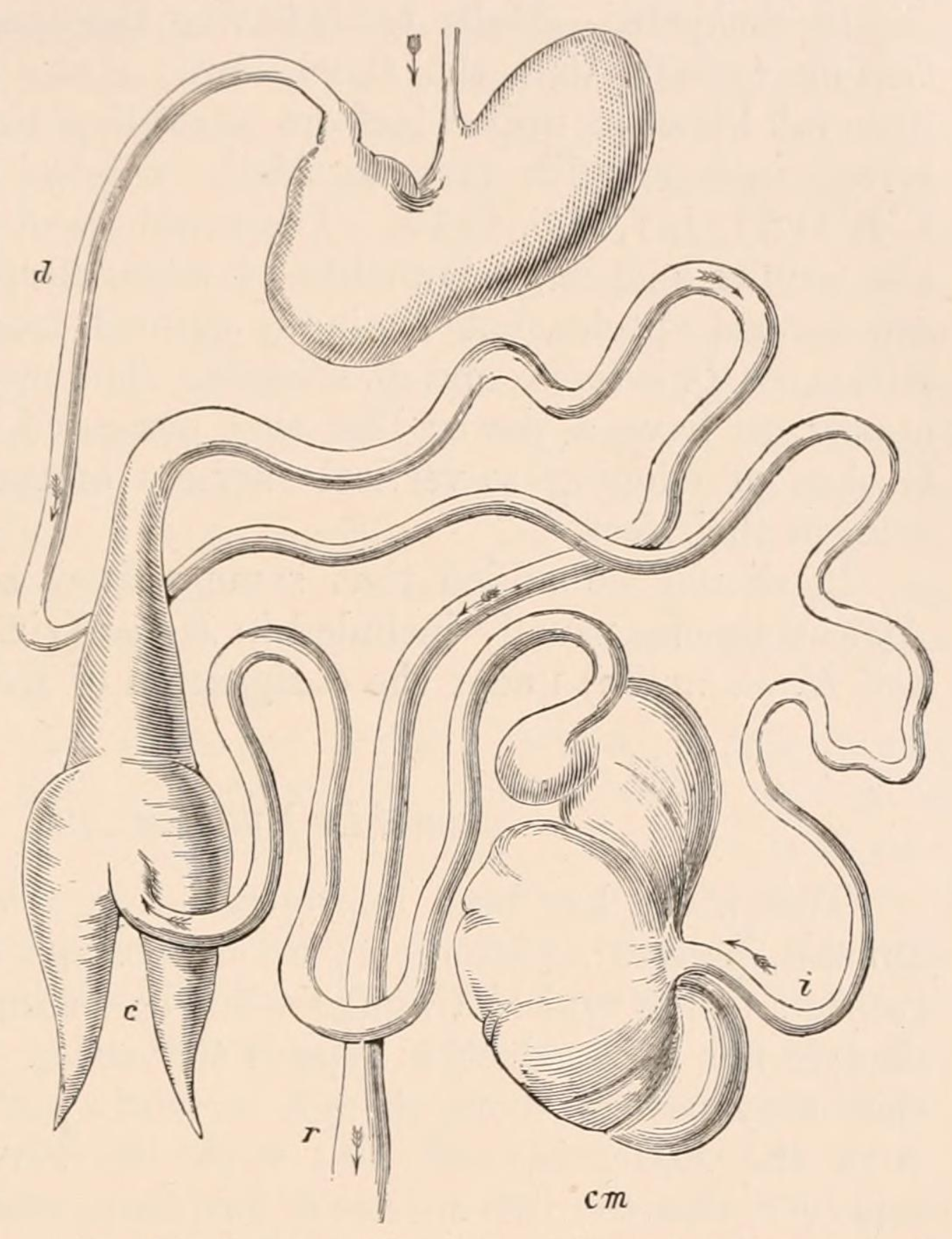 Gastrointestinal tract of the hyrax, schematic illustration; d: Duodenum; i: Ileum; cm: caecum; c: supplemental colic caeca; r: rectum